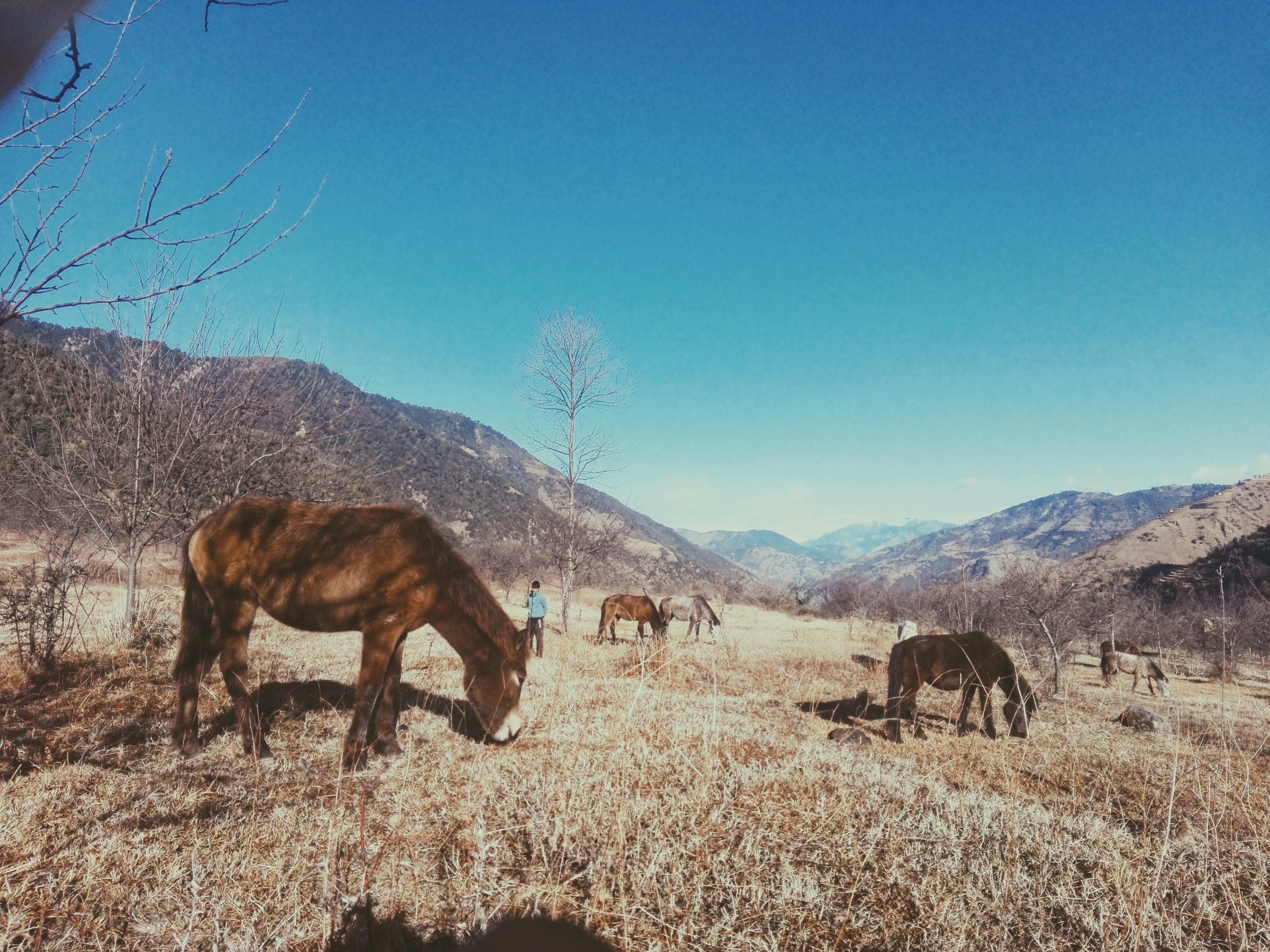 Horse in apple garden located at Thabang Rolpa ,in background view of mountains